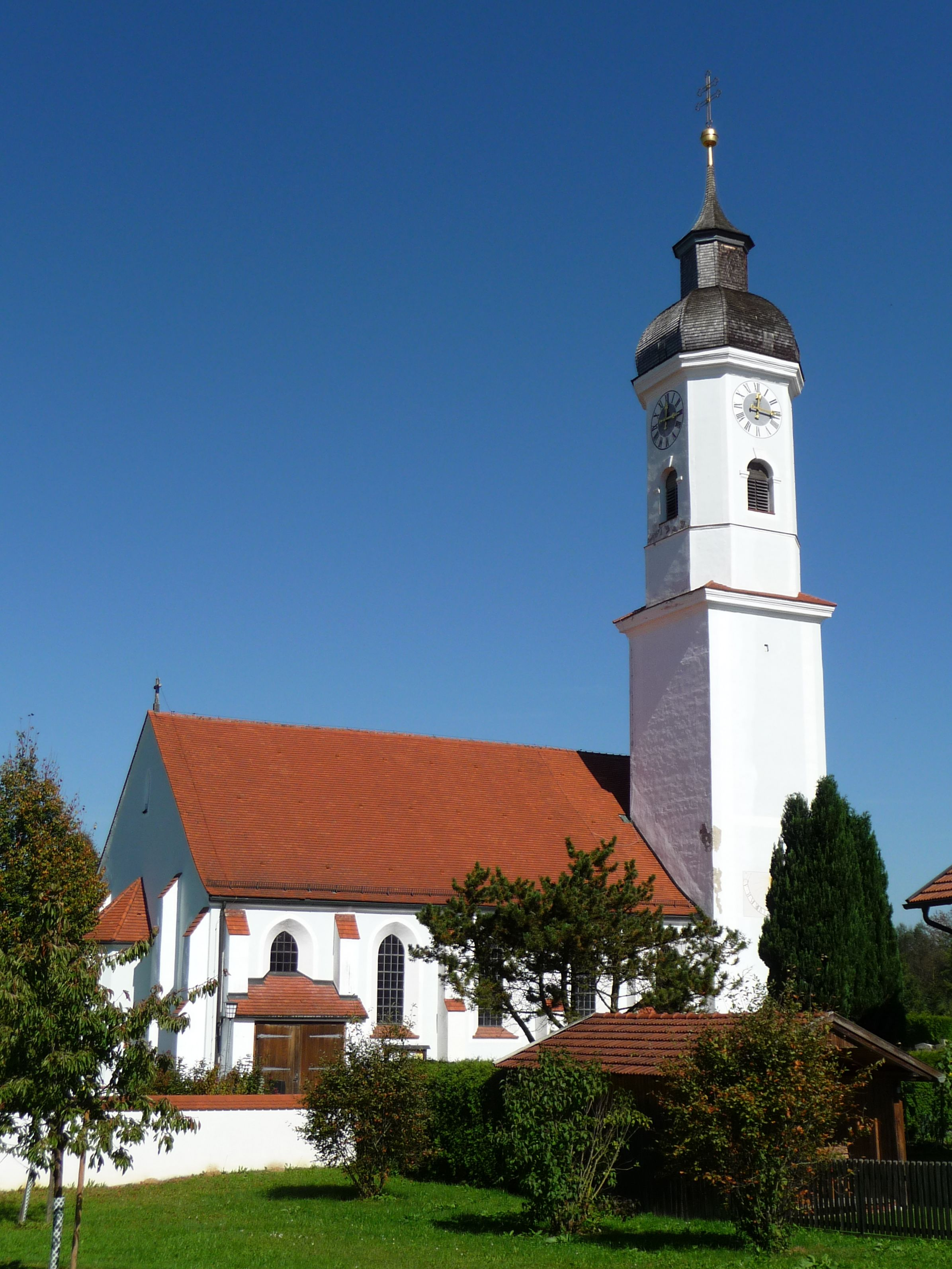 St Andrew's Parish Church in Baierbach, Germany, a 15-century Gothic pseudo-basilica with 1888–89 additions.